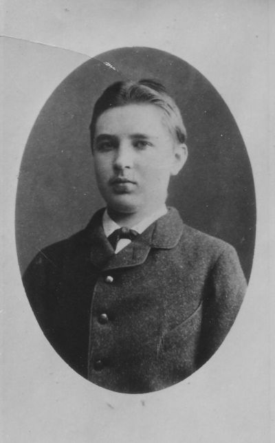 Portrait of the Dutch painter Gerrit van Houten (1866-1934), about 1886